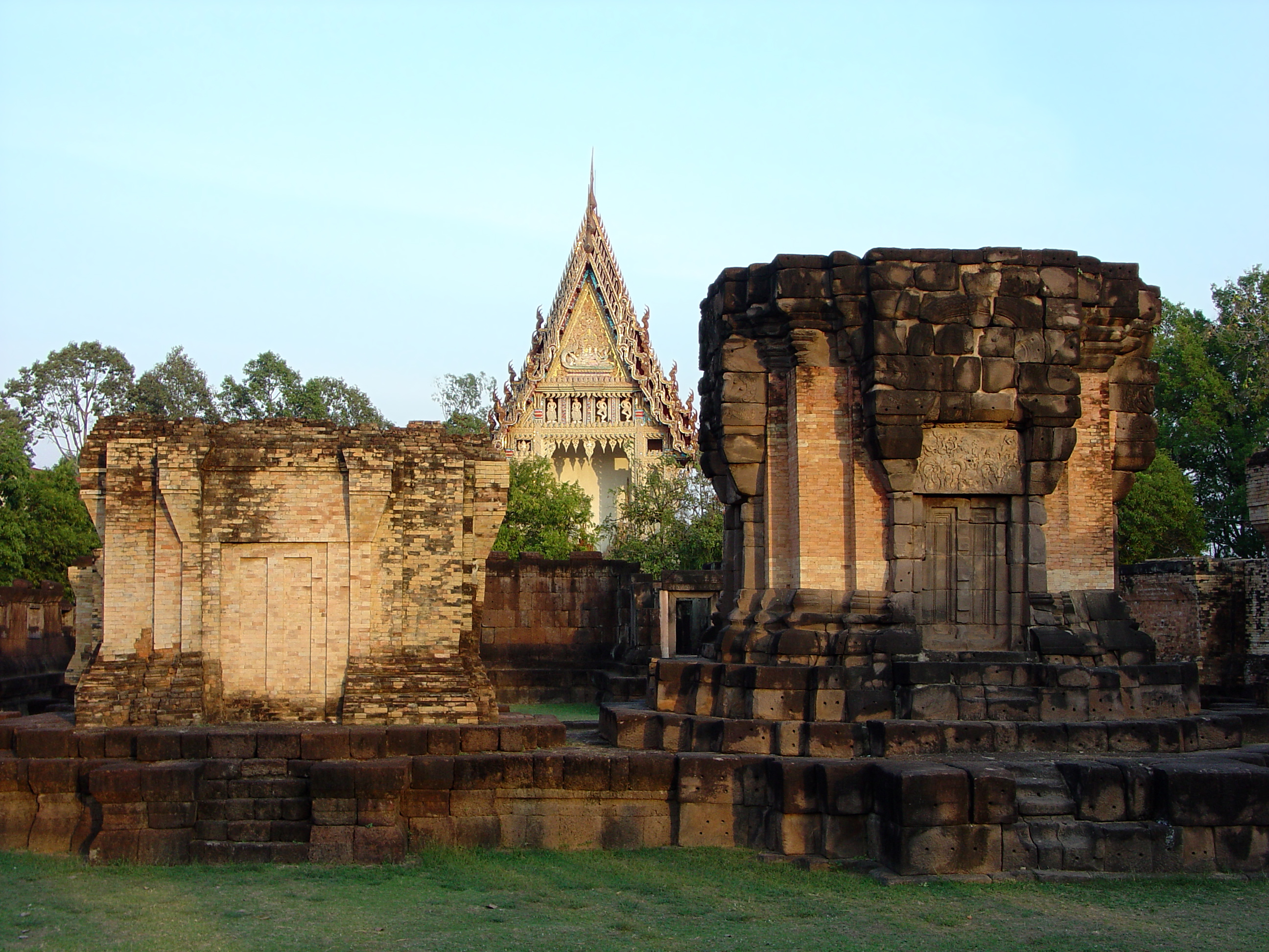 Prasat Kamphaeng Yai. Udayadityavarman, 1050-1066. The temple has been preserved near a later complex, whose peaked roof can be seen in the background. In the foreground right is the old temple's main sanctuary, heavily restored, with a subsidiary tower to the left. The photo is taken from the west.